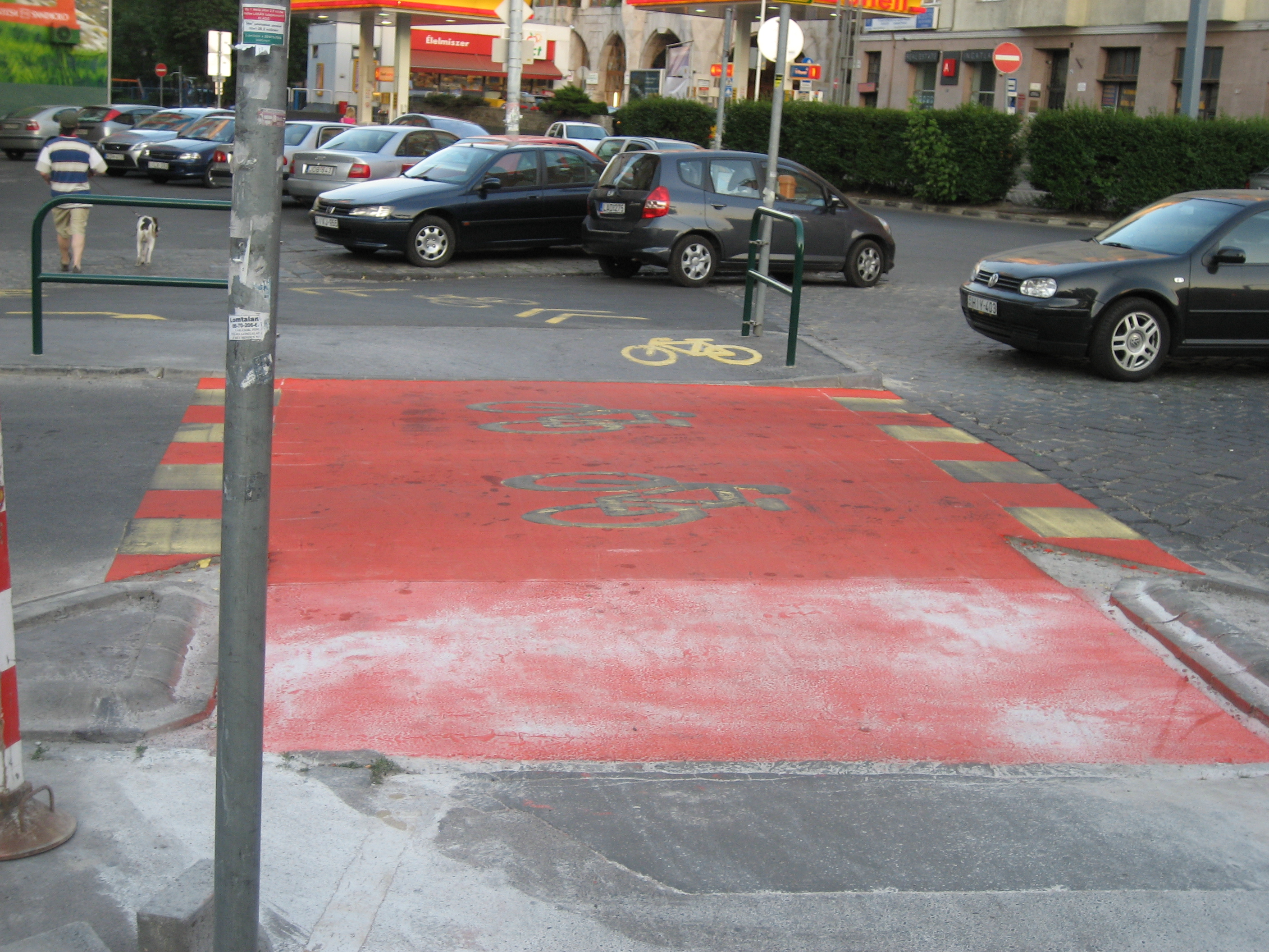 Bikeway crossing (painted red). Varsányi Irén utca, Budapest, Hungary